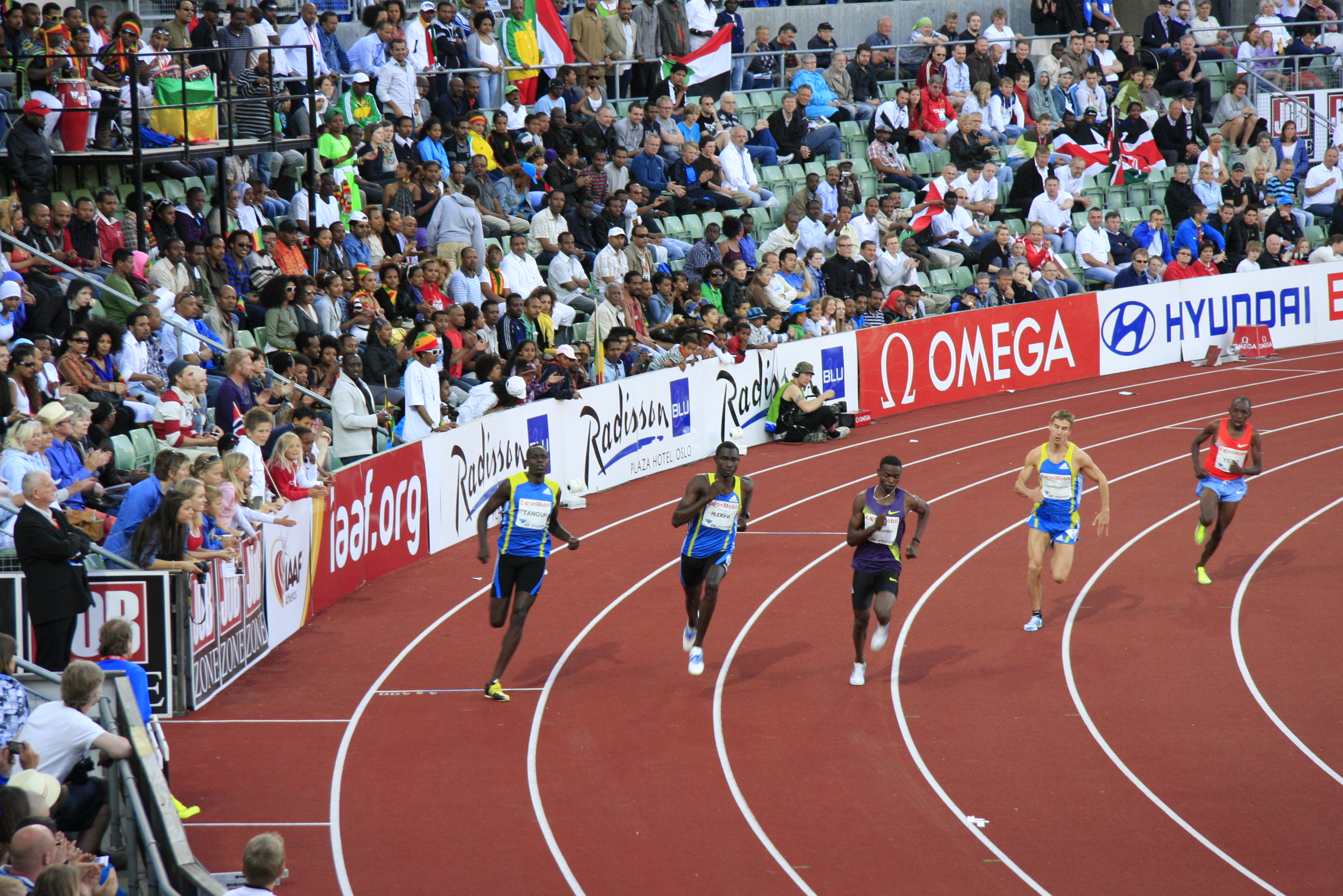 2010 Bislett Games: Sammy Tangui, David Rudisha, Abubaker Kaki Khamis, Marcin Lewandowski, Alfred Kirwa Yego